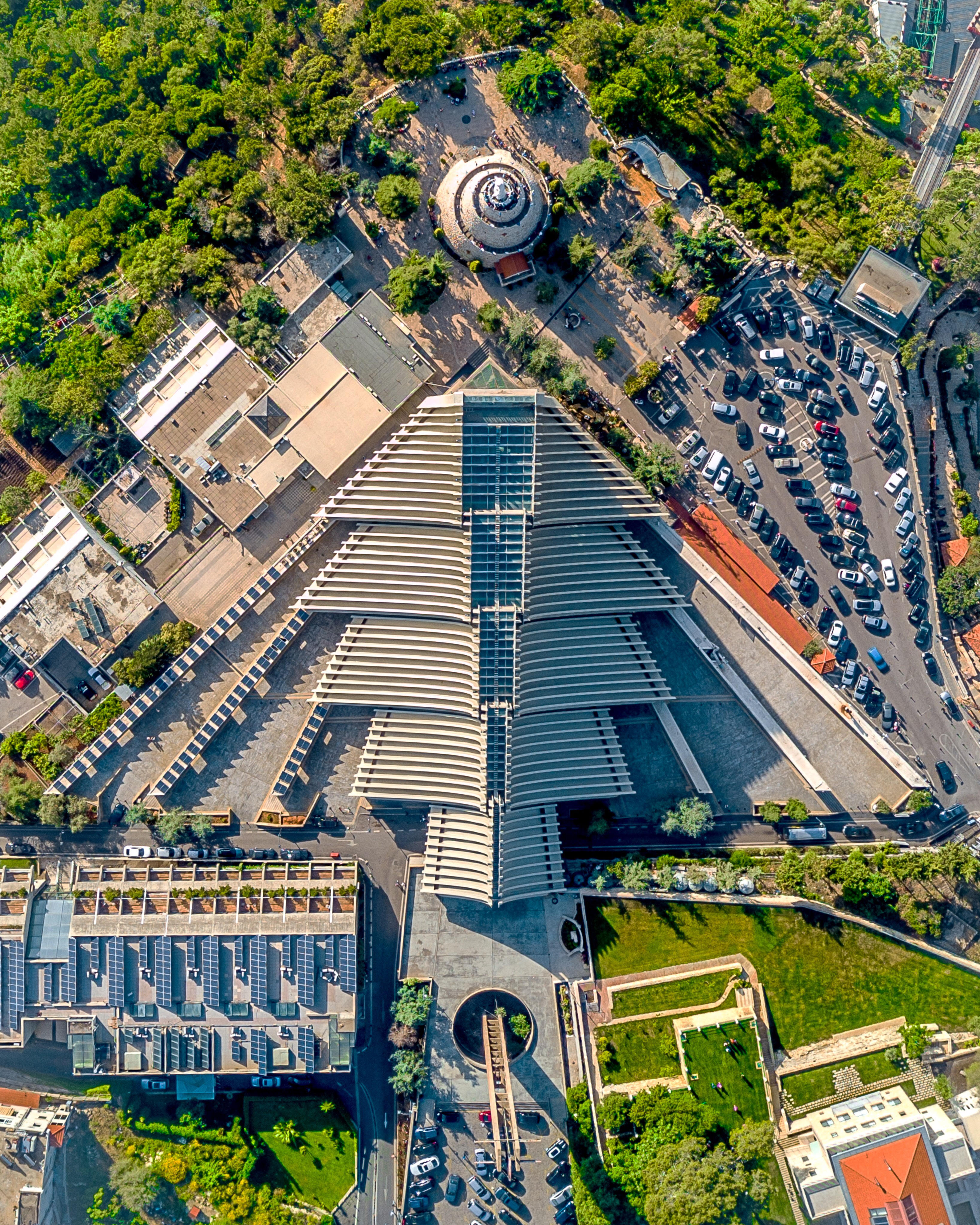 The church along with the cross and the statue captured with a drone directly from above, by Mikhael Bitar.